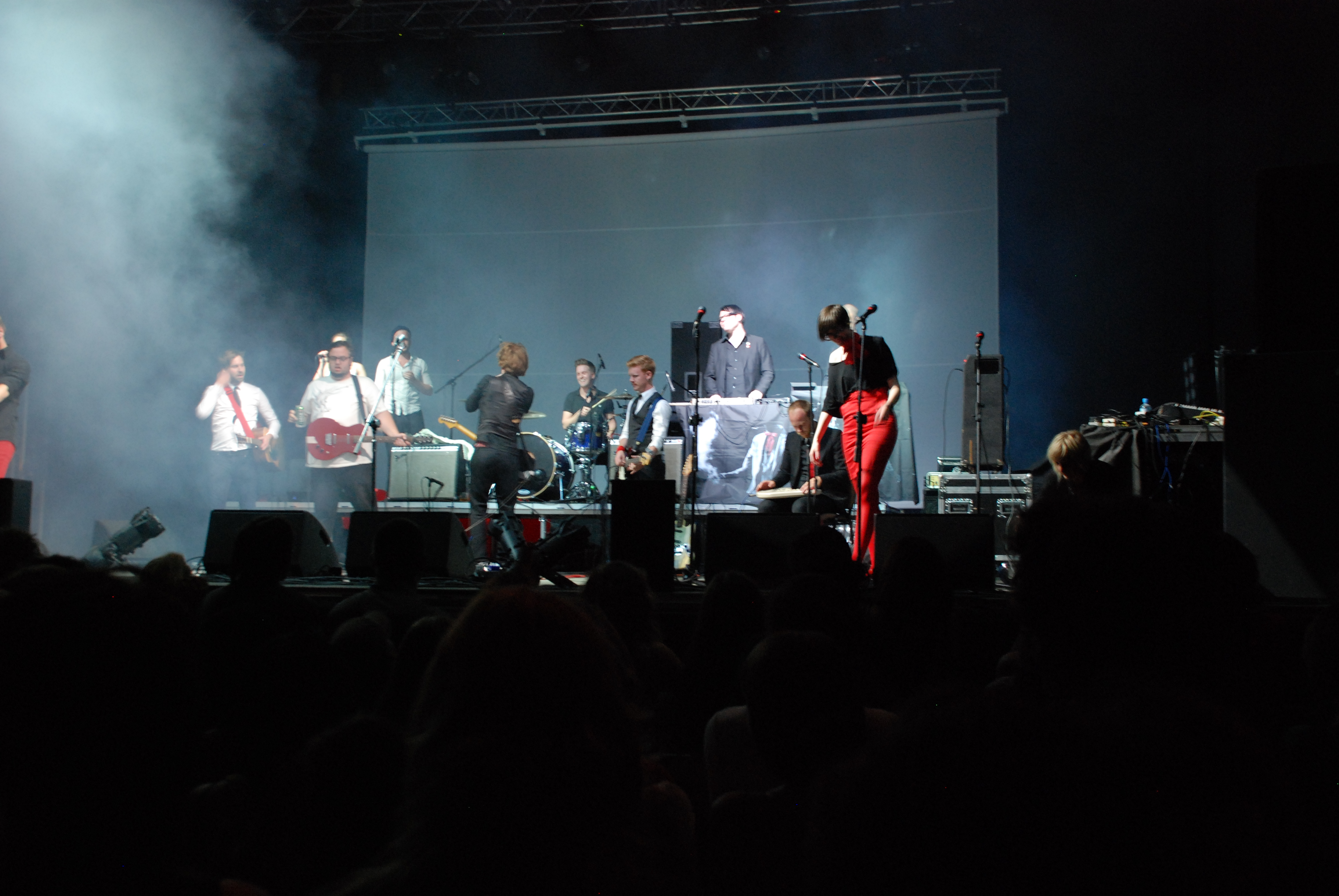 I'm from Barcelona at 9. International Film Festival Era New Horizons, Wrocław, Poland, 23.07-2.08.2009.